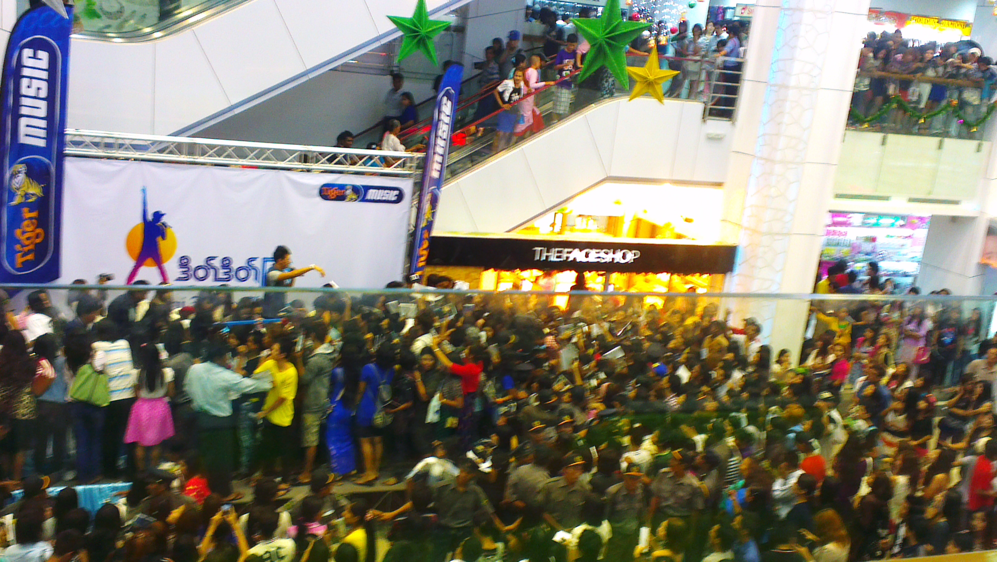 Sai Sai Kham Leng's Date Date Kyal Album Release performance at Junction Square, Yangon in 2012